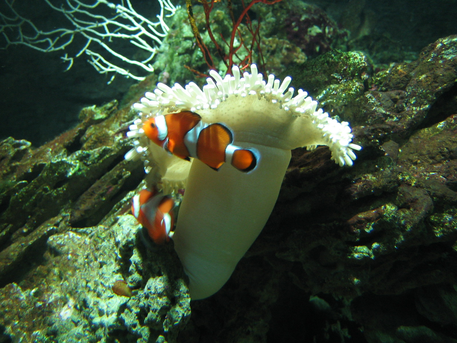 Clown fishes in CosmoCaixa, Barcelona.